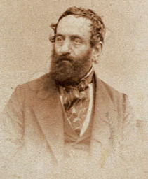 A photograph of John Elliotson (1791-1868), M.D. (Edinburgh, 1810), M.R.C.P. (London, 1810), M.B. (Oxford, 1816), M.D. (Oxford, 1821), F.R.C.P. (London, 1822), F.R.S. (1829), professor of the principles and practice of medicine at University College London (1832), and senior physician to University College Hospital (1834).